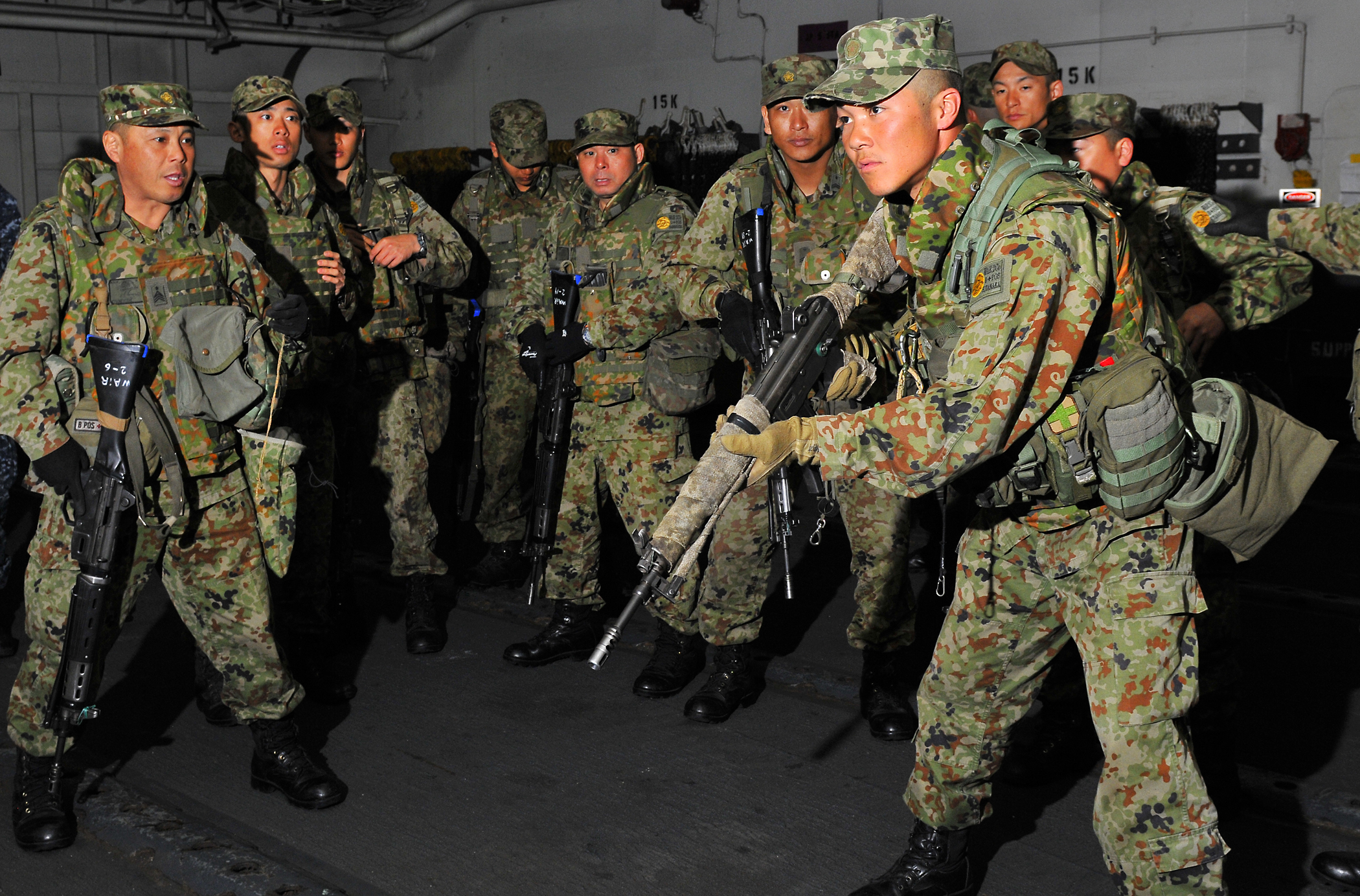 PACIFIC OCEAN (Feb. 8, 2012) Members of the Japan Ground Self-Defense Force conduct small arms weapons training aboard the amphibious assault ship USS Peleliu (LHA 5). Peleliu is participating in exercise Iron Fist 2012. Iron Fist is a training exercise between U.S. Marines and the Japanese Ground Self-Defense Force designed to increase interoperability and amphibious capabilities throughout U.S. 3rd and 7th Fleet areas of responsibility. (U.S. Navy photo by Mass Communication Specialist 2nd Class Michael Russell/Released)